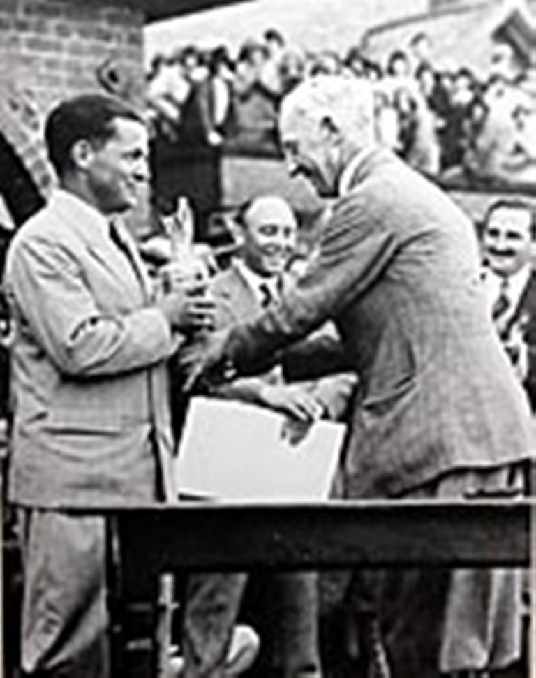 adjusted size of picture